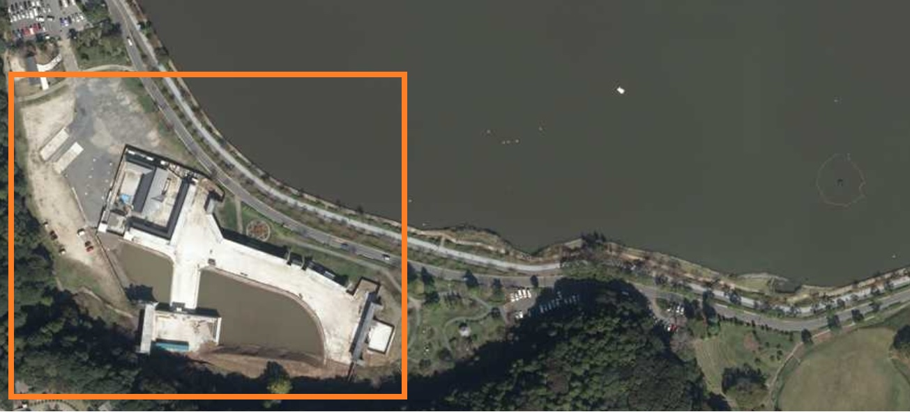 Aerial photo of Lake Senba in Mito , Ibaraki.(2012-10-13).The movie “Sakurada mongai no hen” open location set and the memorial exhibition hall.